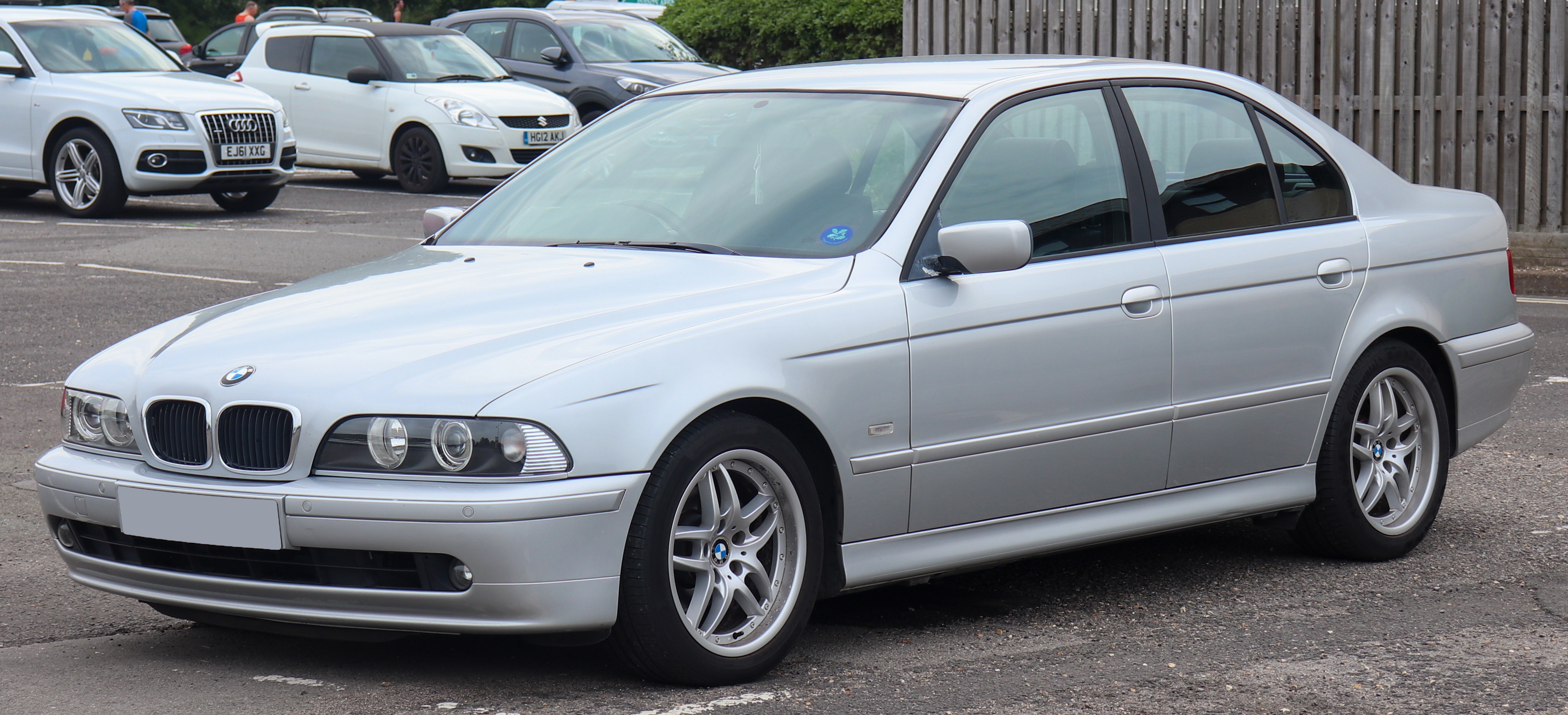 2003 BMW 520i ES SE Automatic 2.2 Front Taken in Weymouth